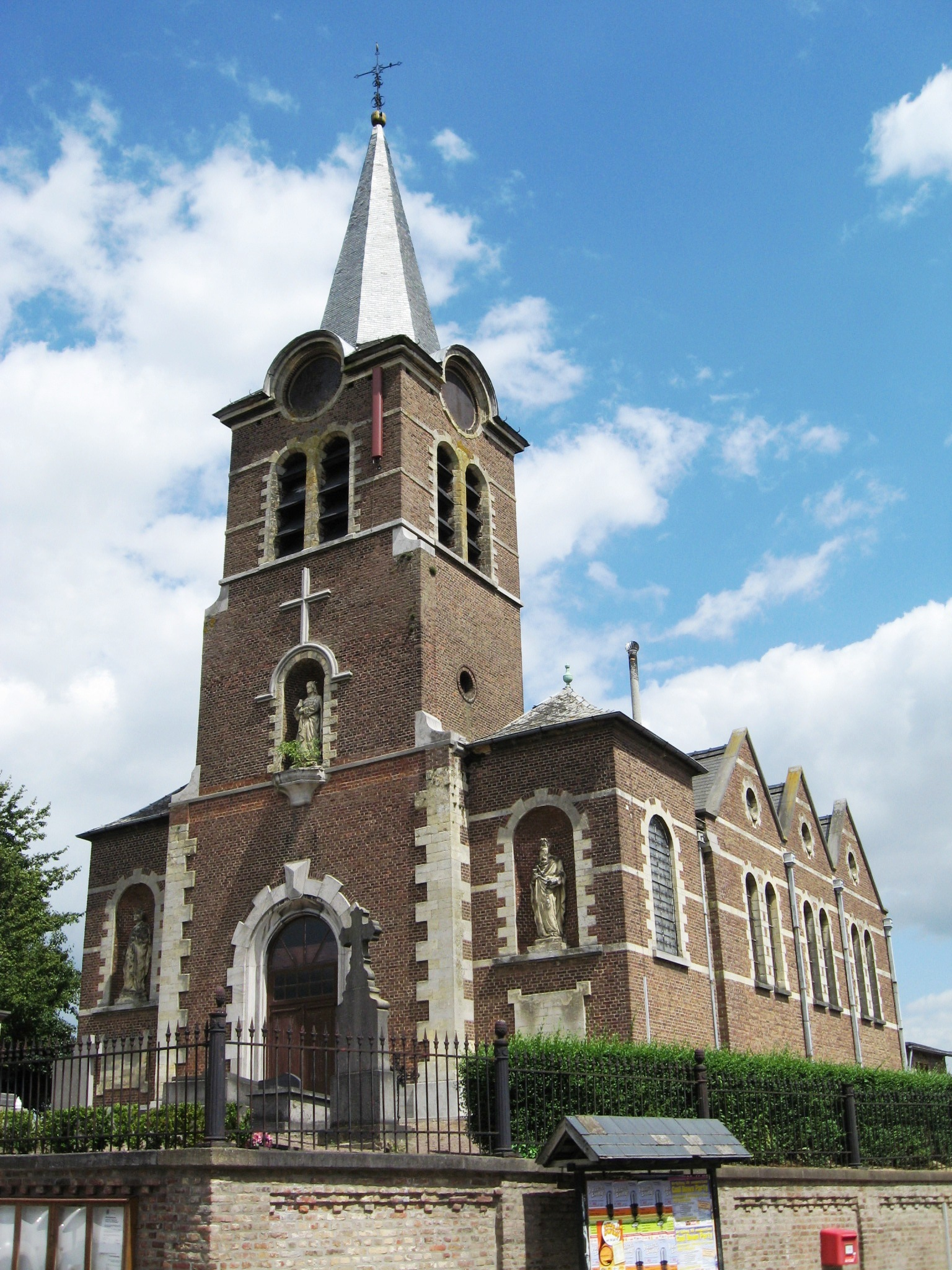 Church of the Holy Cross in Jesseren, Borgloon, Limburg, Belgium